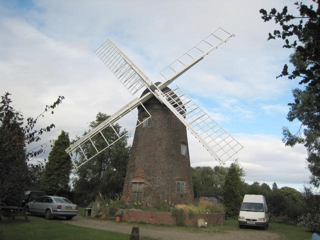 Berkswell Windmill, Balsall Common, West Midlands (formerly Warwickshire)